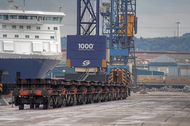 Dockside Railway, Teesport On the right is the Ro-Ro Container Ship M/V Norsky operated by P&O Ferries.